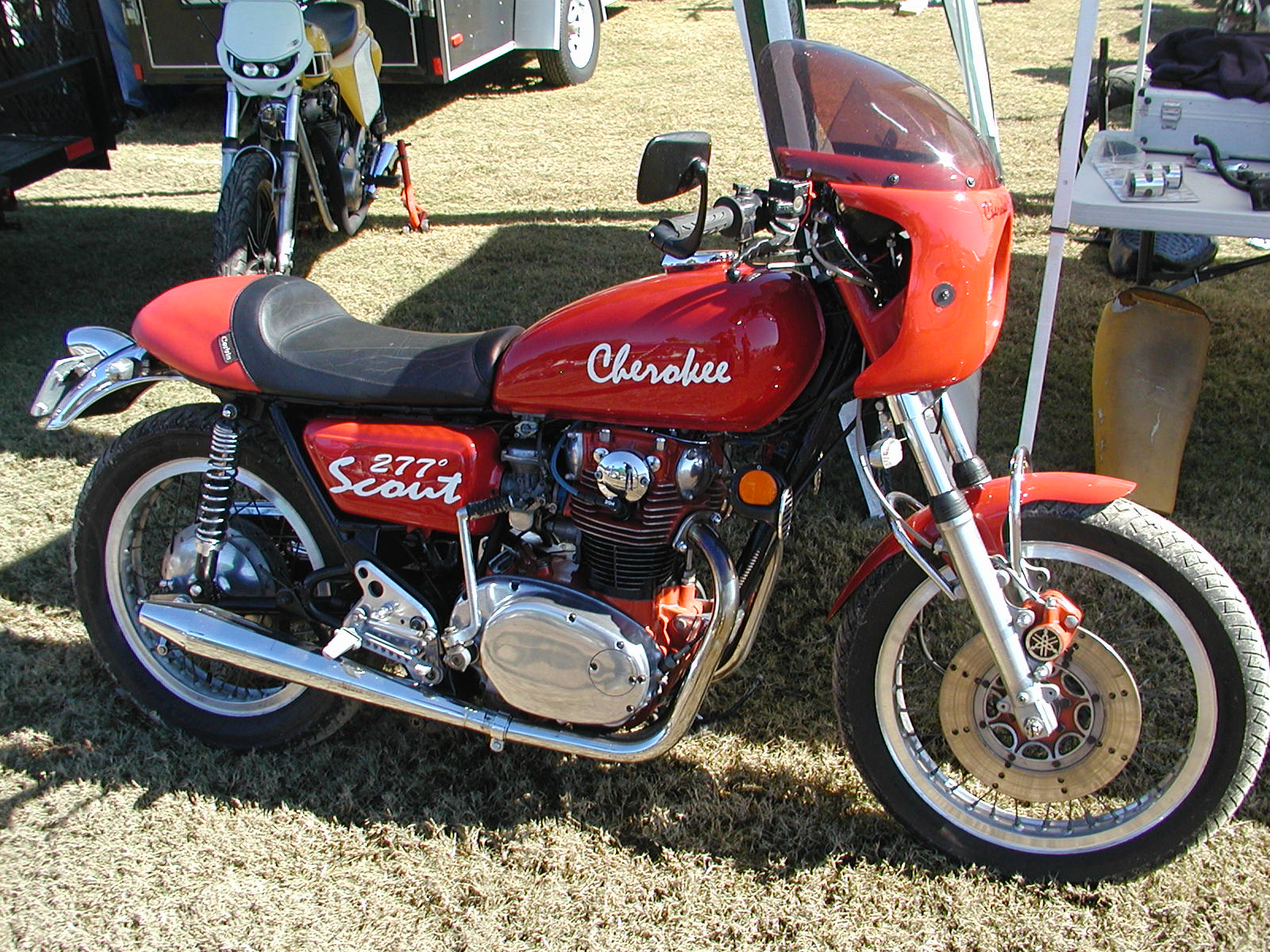 Barber Motorcycle Museum - Oct 22 2006 (33) Yamaha XS650